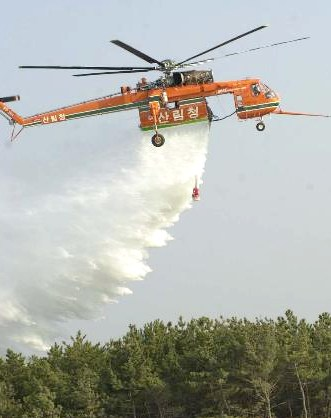 2000년대 초반 서울소방 소방공무원(소방관) 활동 사진